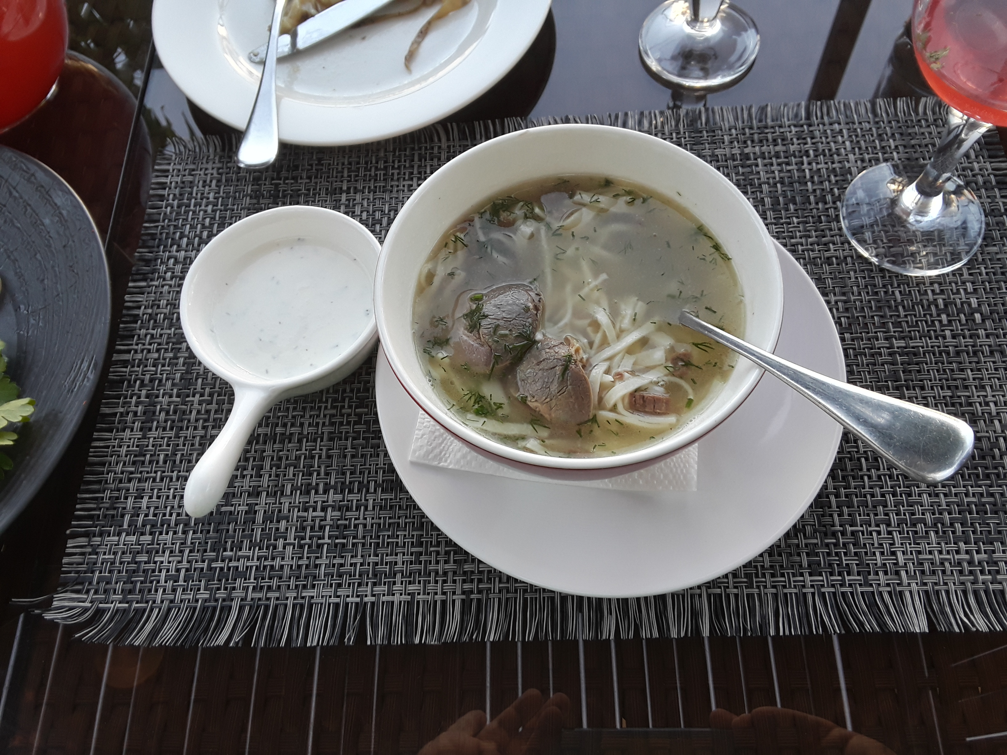 Cuisine of Kazakhstan at a restaurant in Nur-Sultan